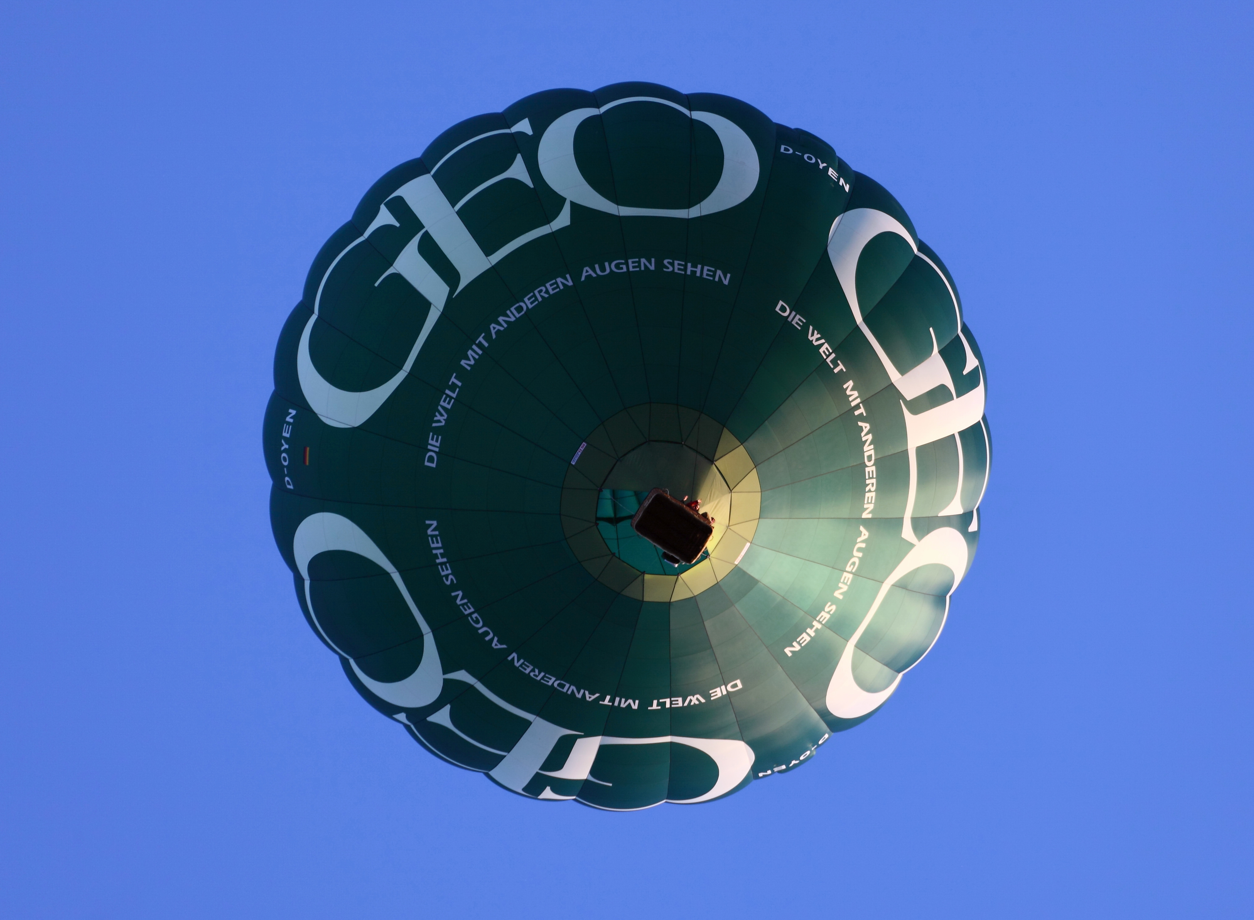 The underside of a hot air balloon. Balloon over Uetersen.